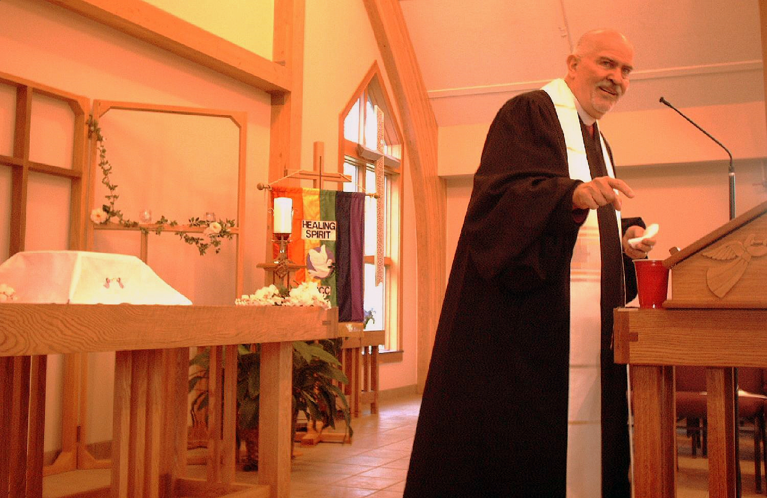 Troy Perry preaching at the Metropolitan Community Church in Rochester, Minnesota